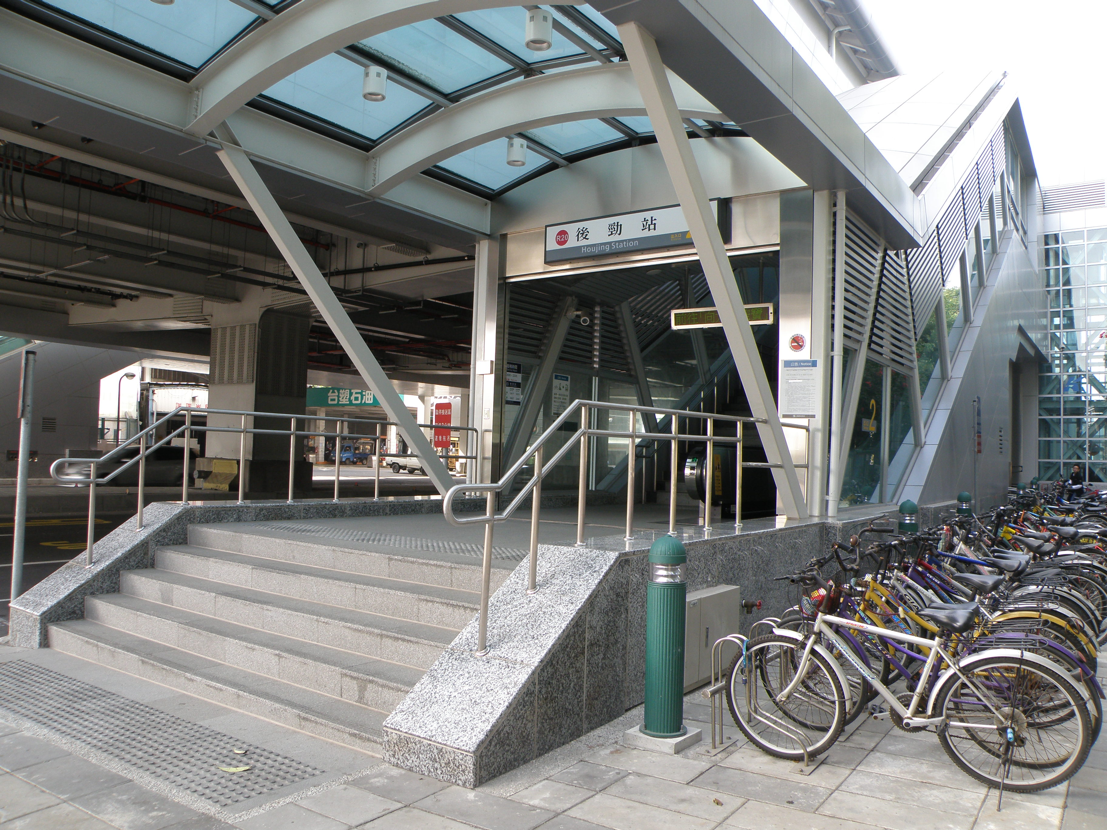 Exit No.2 of Houjing Station, Kaohsiung Mass Rapid Transit.